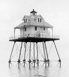 Rebecca Shoal light west of Marquesas Keys, FL; built 1886, demolished 1953. Rebecca Shoal Light